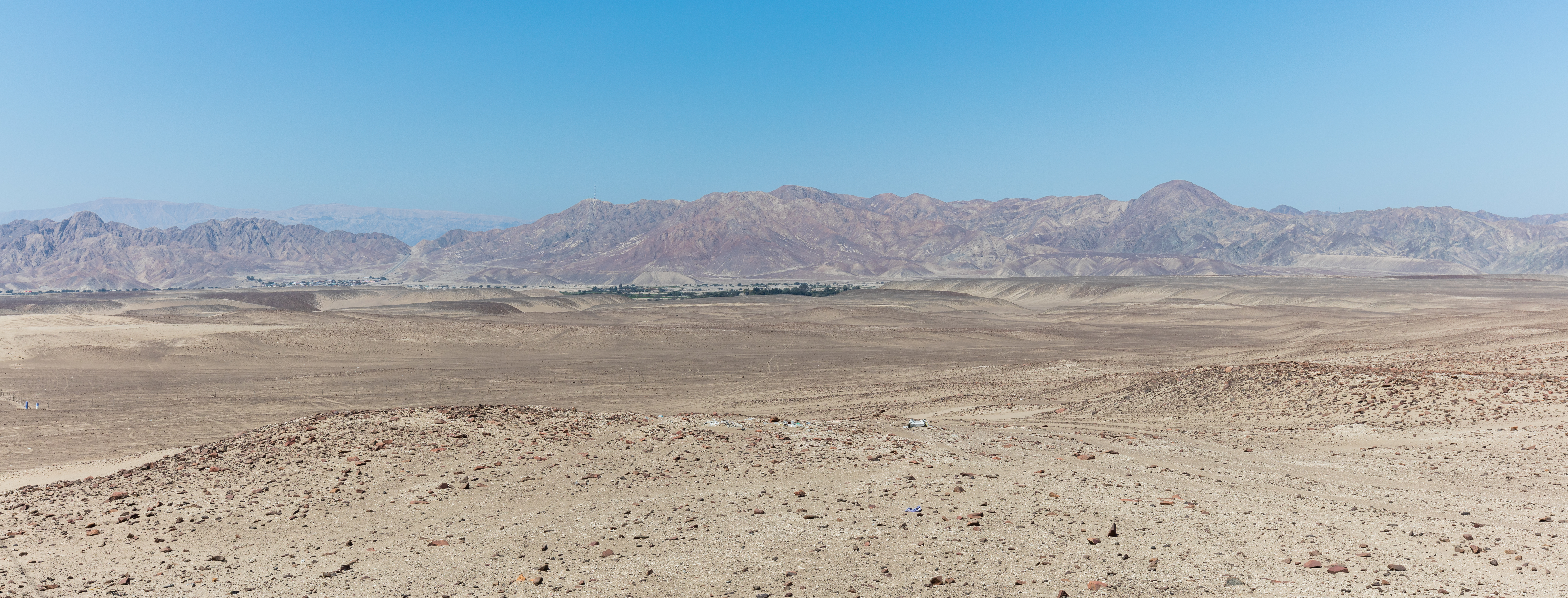 Landscape near Ica, Peru